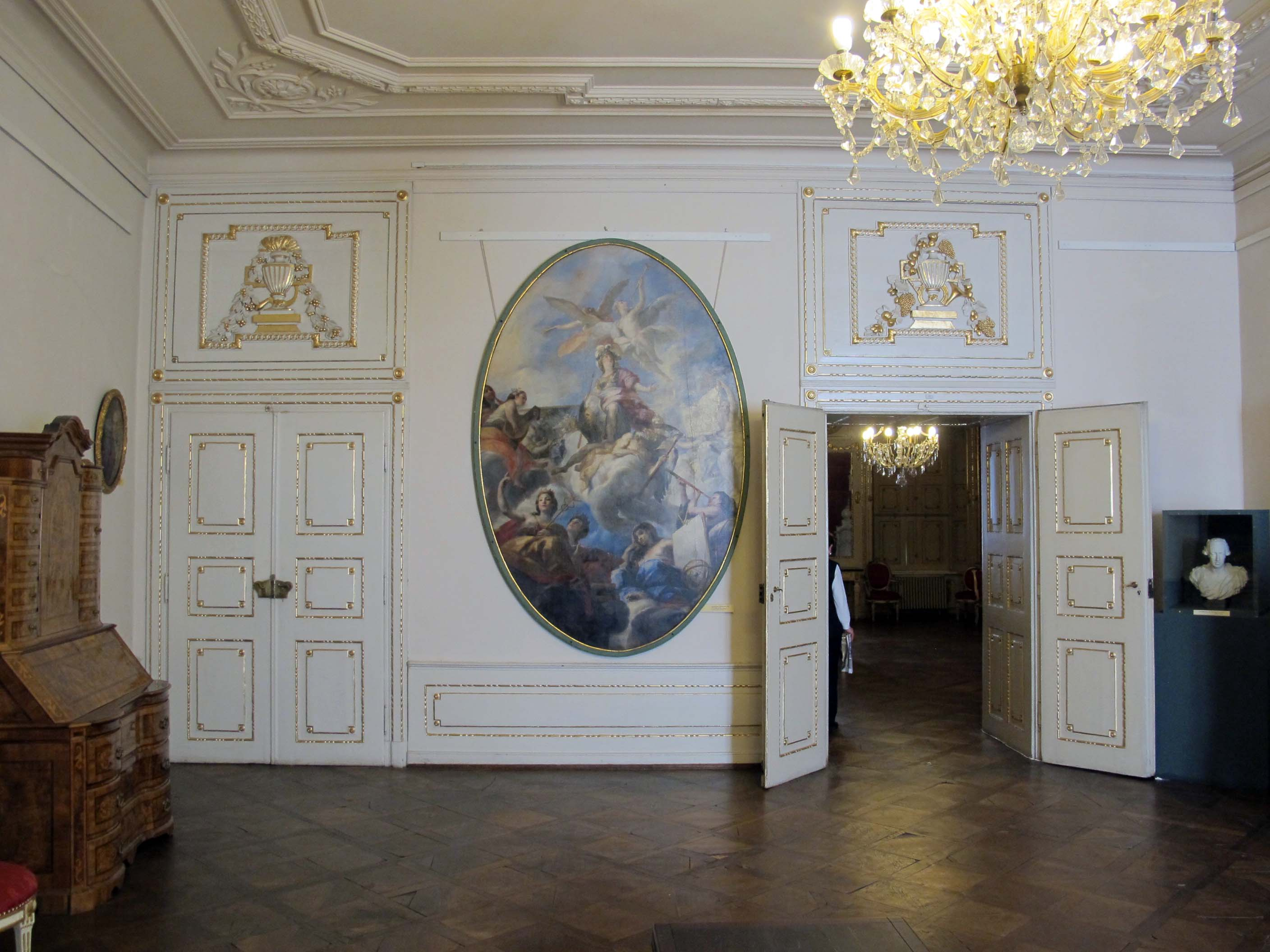 Museo bruckenthal, interno